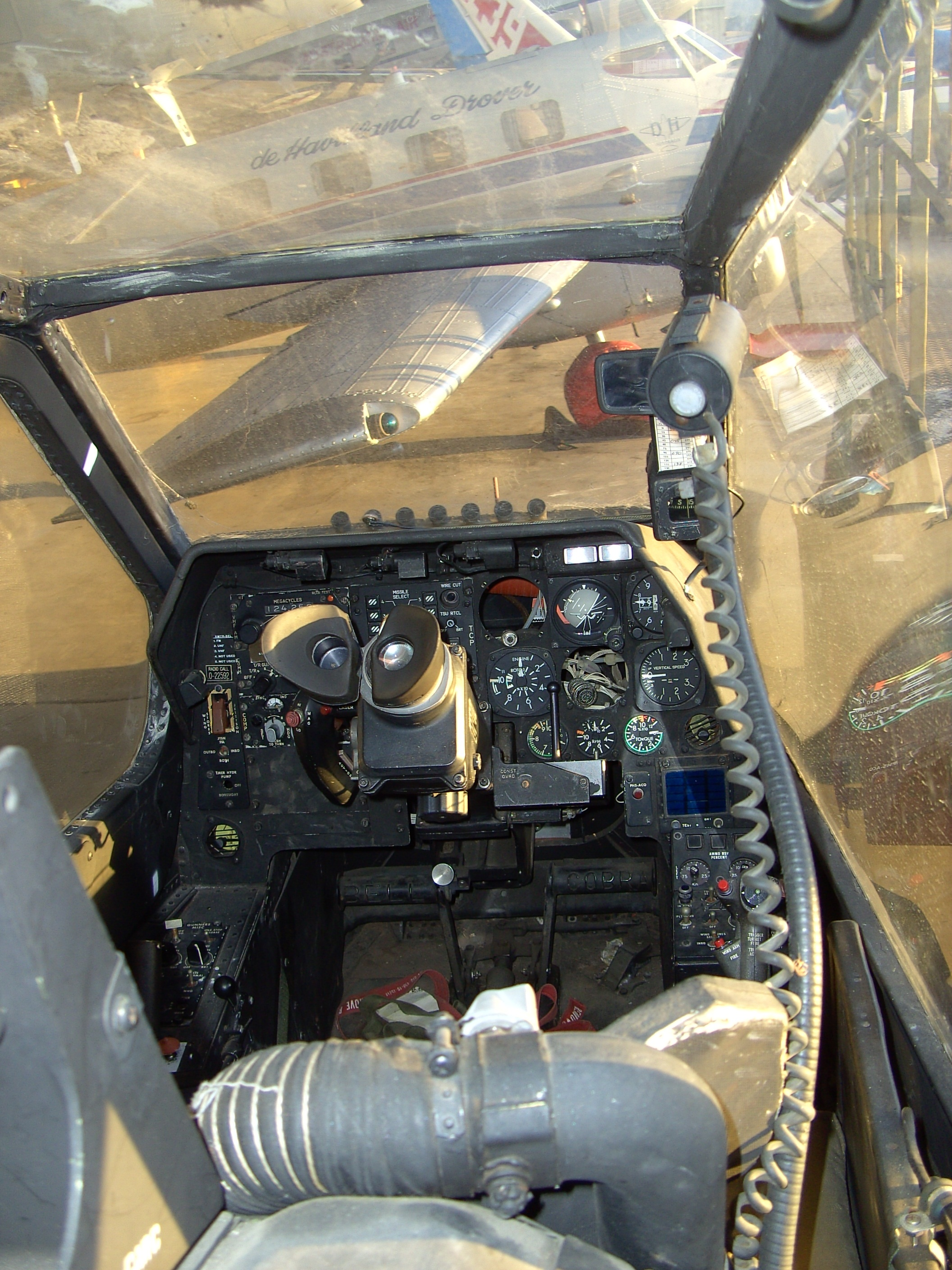 AH-1P front cockpit (stripped), Historical Aircraft Restoration Society